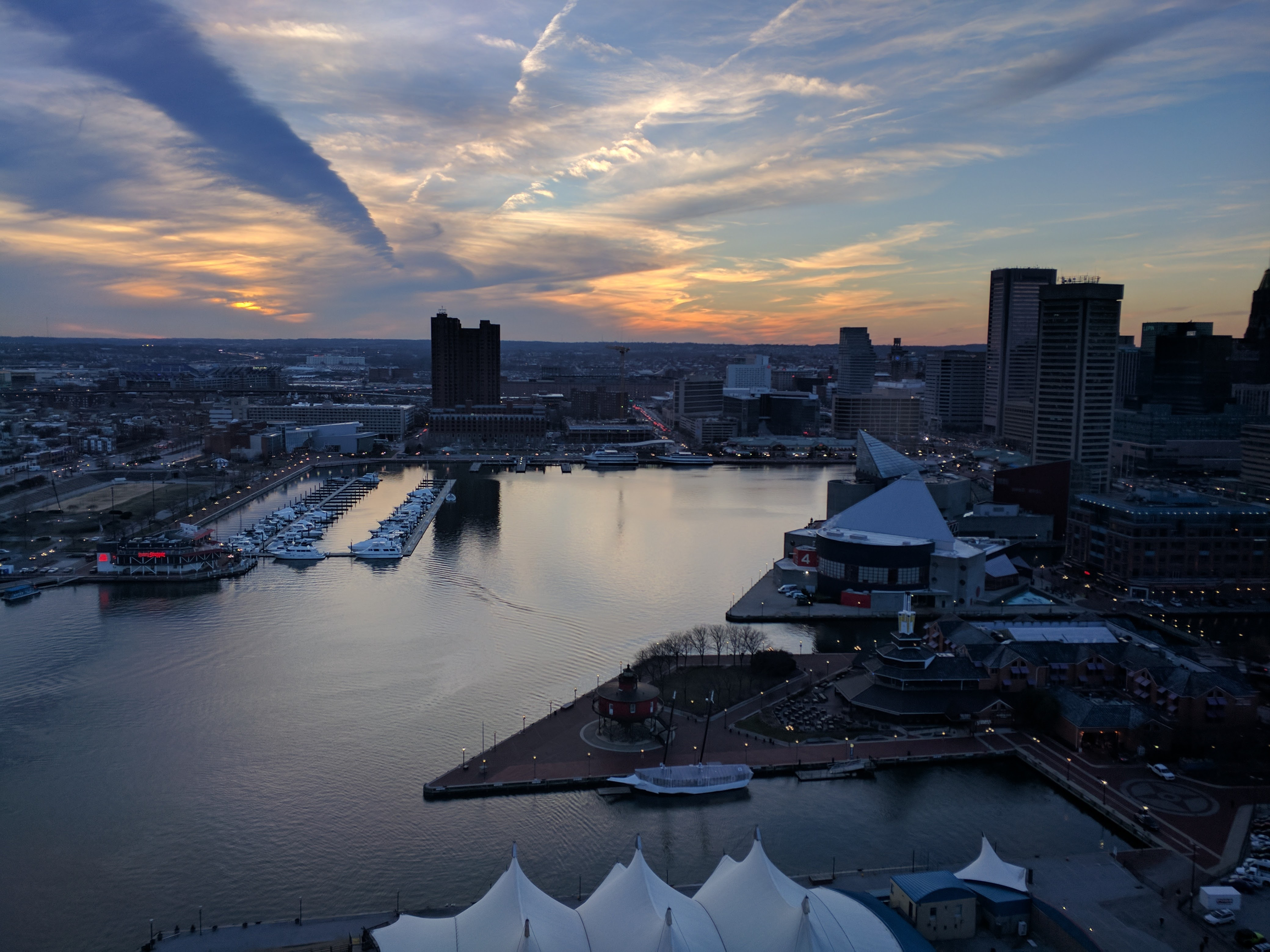 Sunset at Baltimore's Inner Harbor, Feb 2017, from the hotel Baltimore Marriott Waterfront.